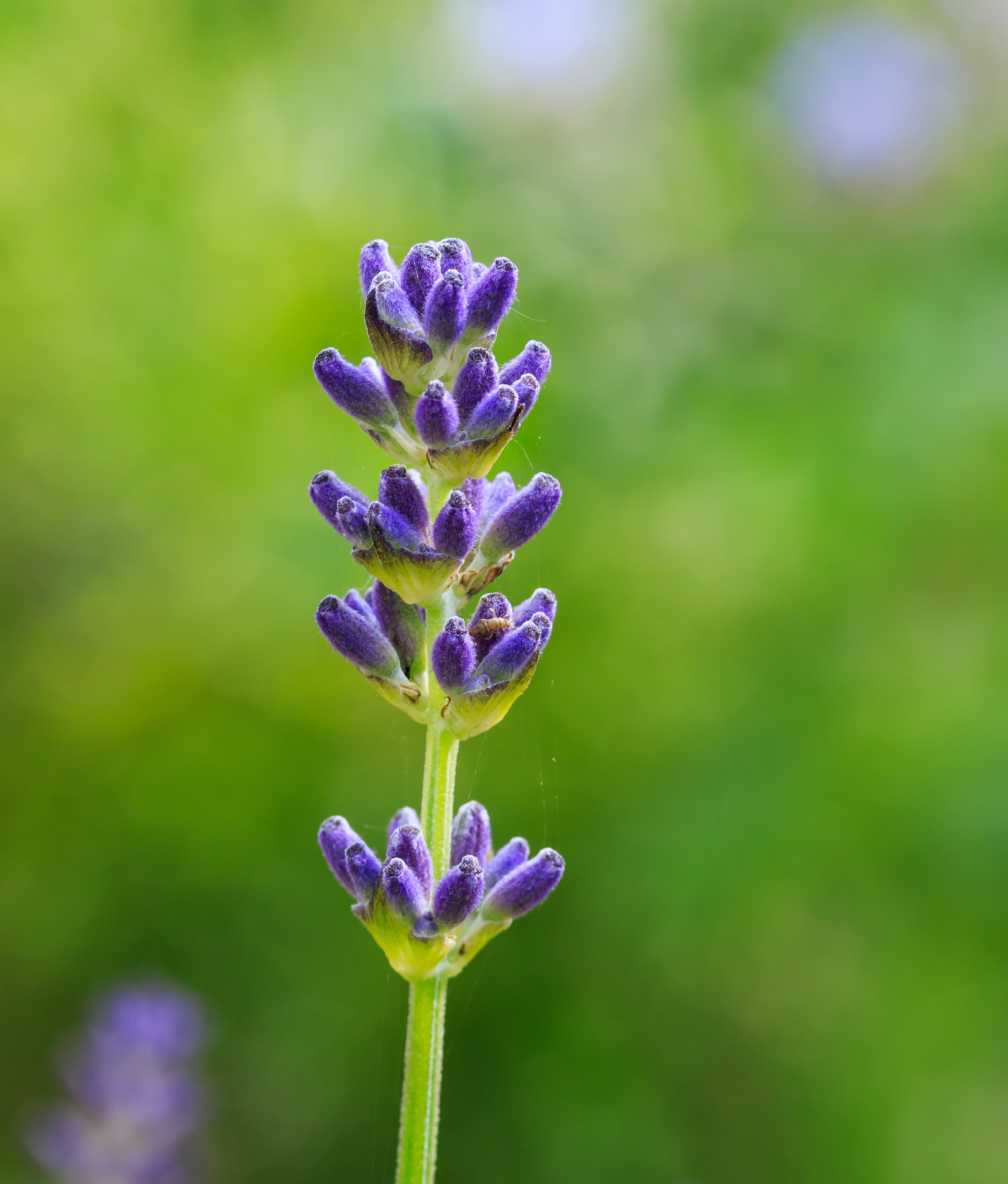 Lavandula latifolia. Location, The Kruidhof in the Netherlands.